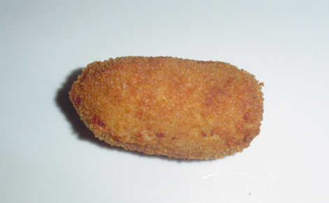 spanish croquette